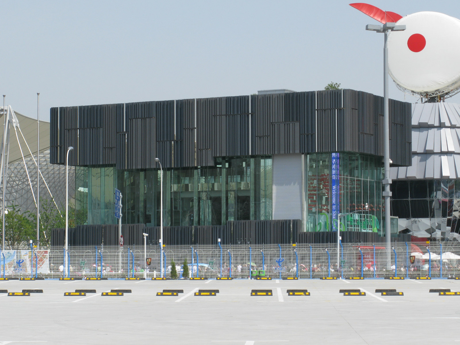 Hong Kong Pavilion, Expo 2010 Shanghai